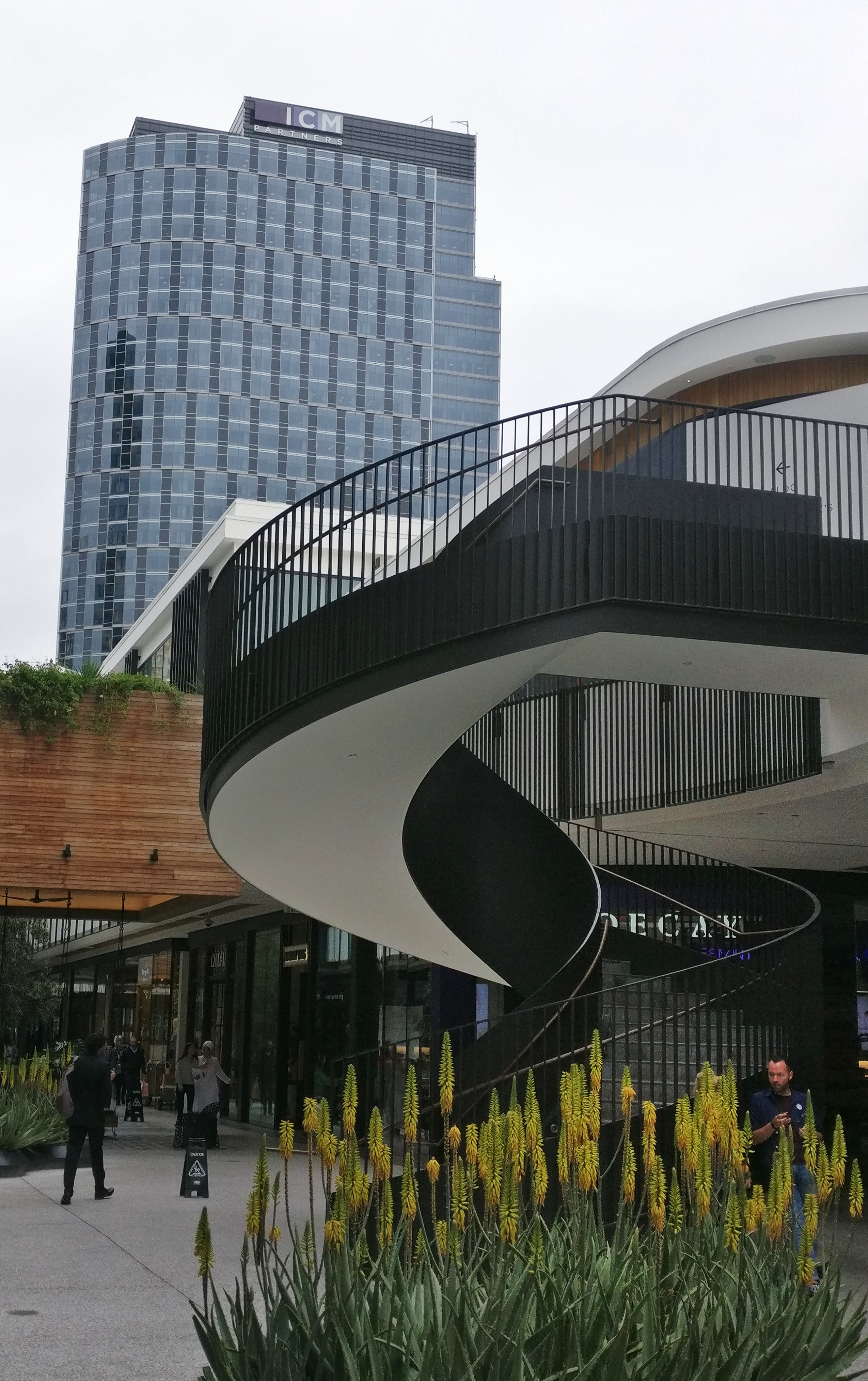 Constellation Place (ICM Partners) towering over the Westfield Shopping Center